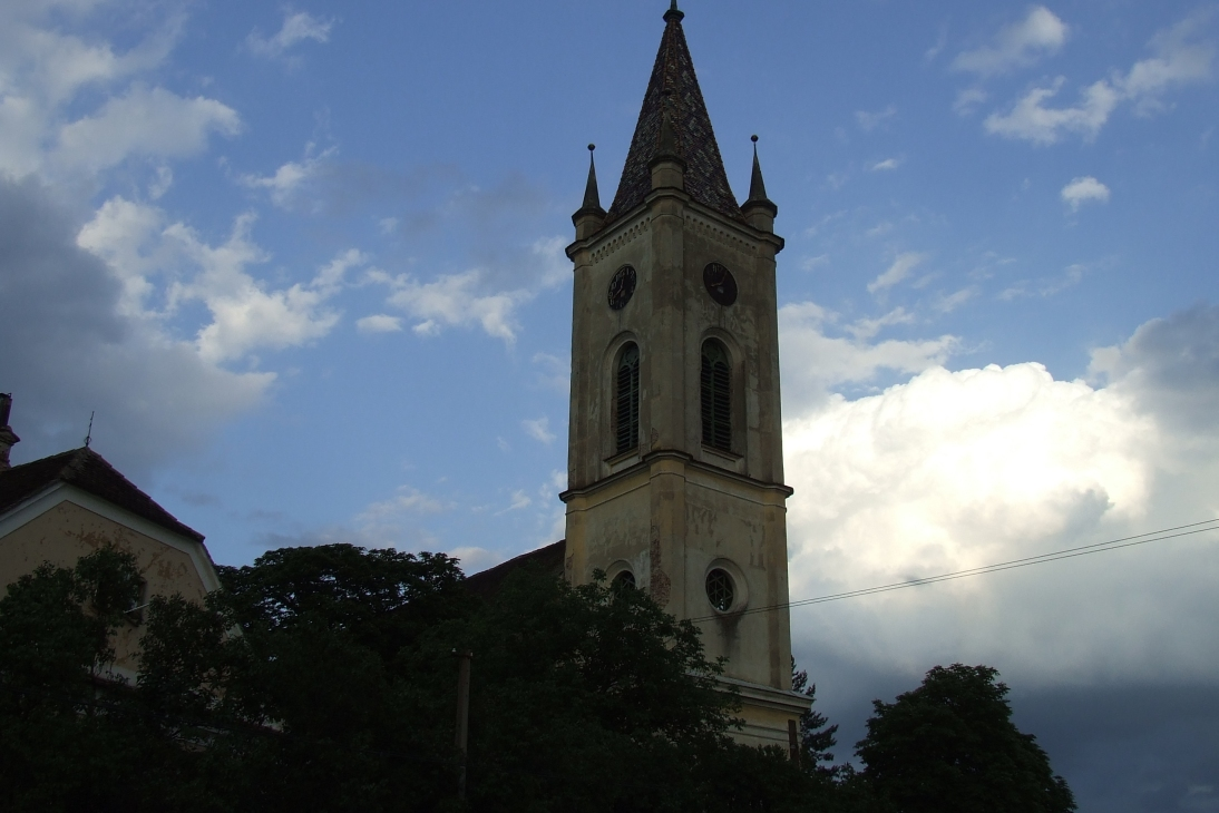 View from Apoldu de Sus, Sibiu County, Romania